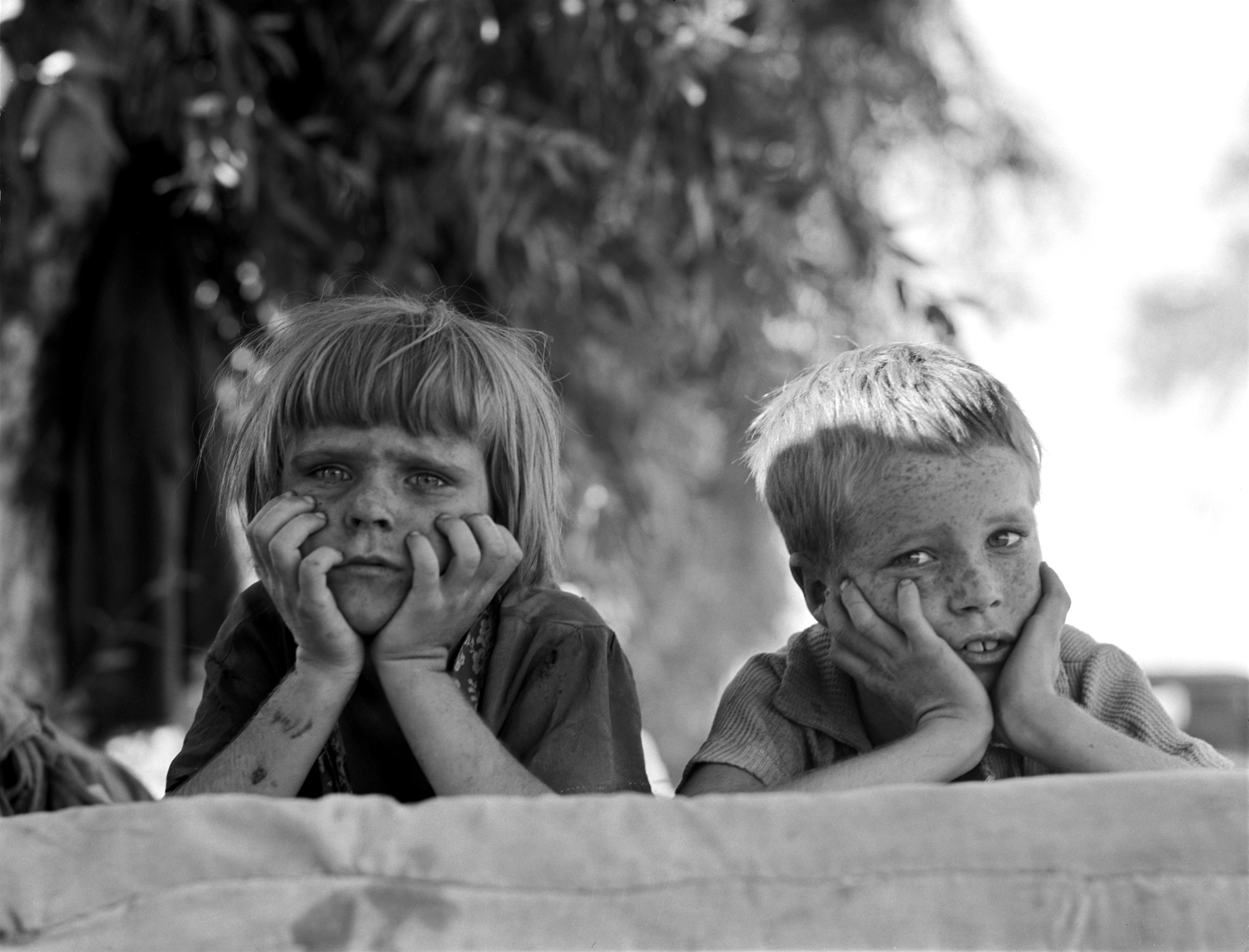 Children of Oklahoma drought refugee in migratory camp in California.